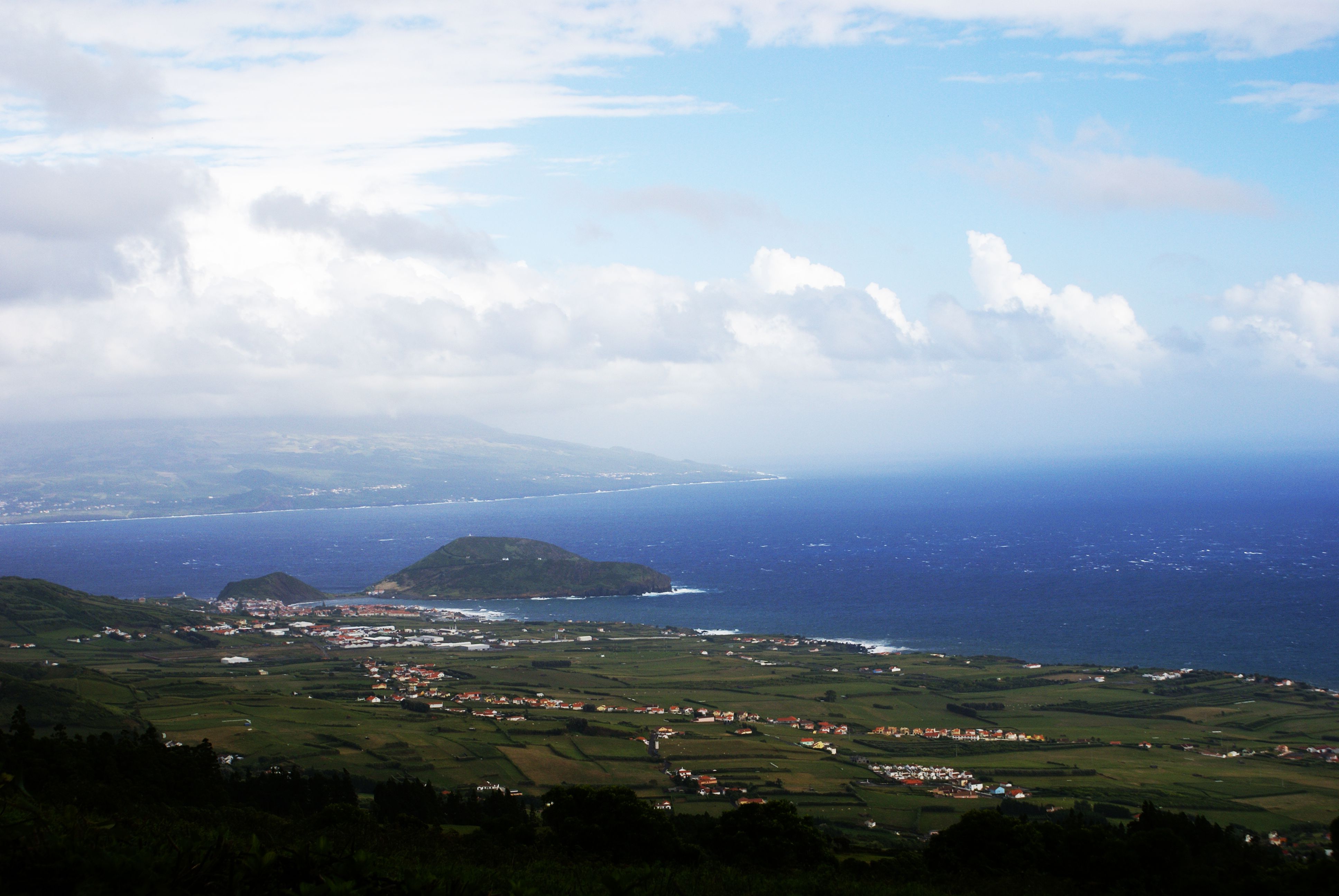 Interior da ilha do Faial, ilha do Pico ao fundo, Vista parcial, Açores, Portugal